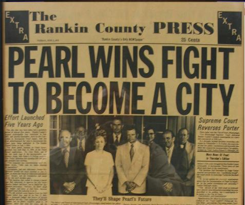 Headline of Pearl, Mississippi's founding from the now defunct The Rankin County Press.